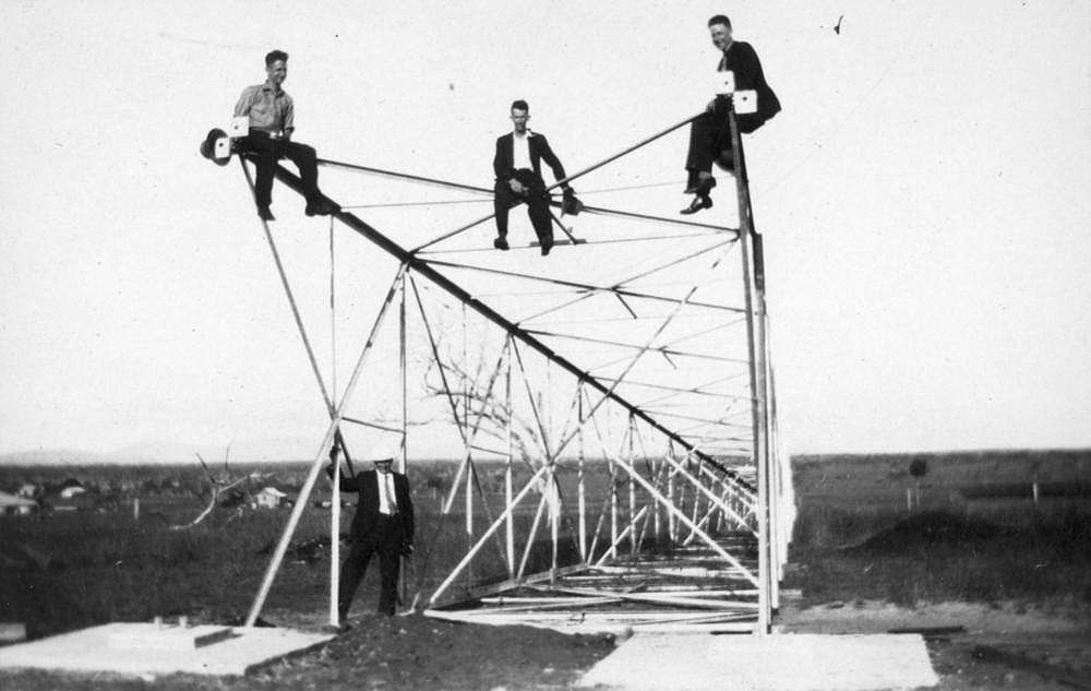 Erecting a radio mast for 4RK, Rockhampton, 1931, four workers posing, via Picture Queensland, State Library of Queensland